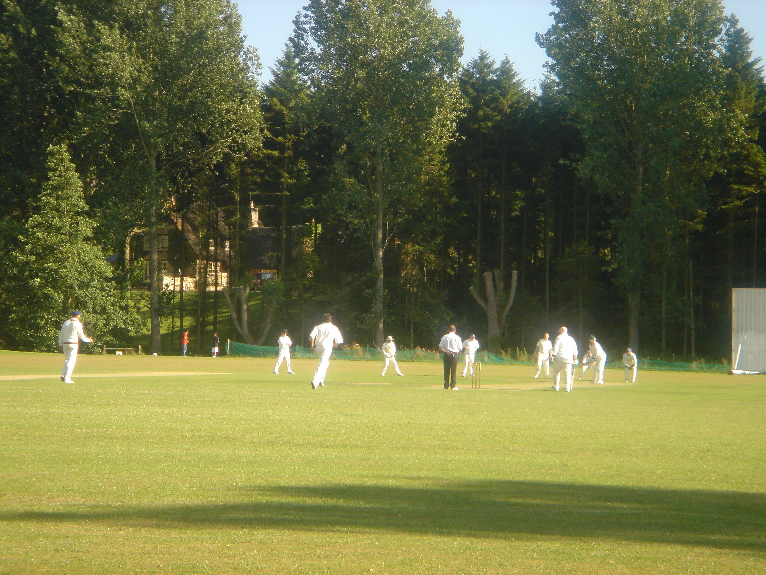 This is a typical scene of English village cricket. Cotswolds area, July 2005.